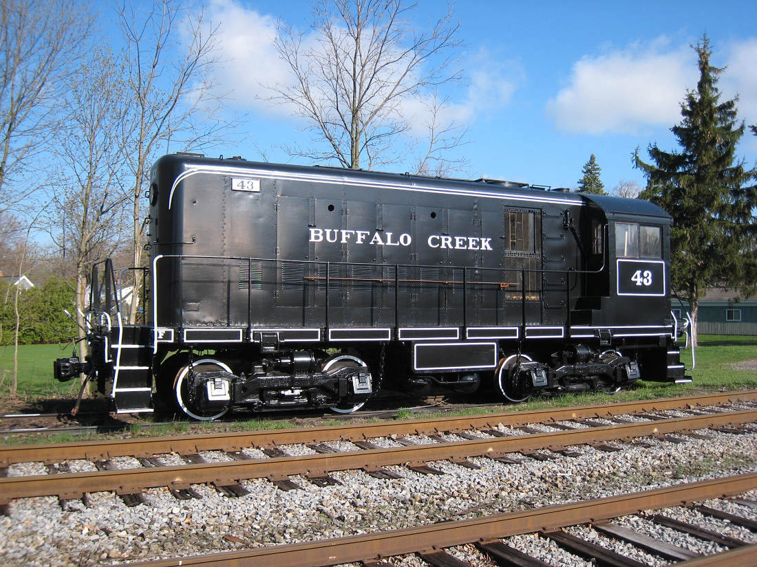 Buffalo Creek ALCO HH660 #43 has just had the final pin-stripping applied.